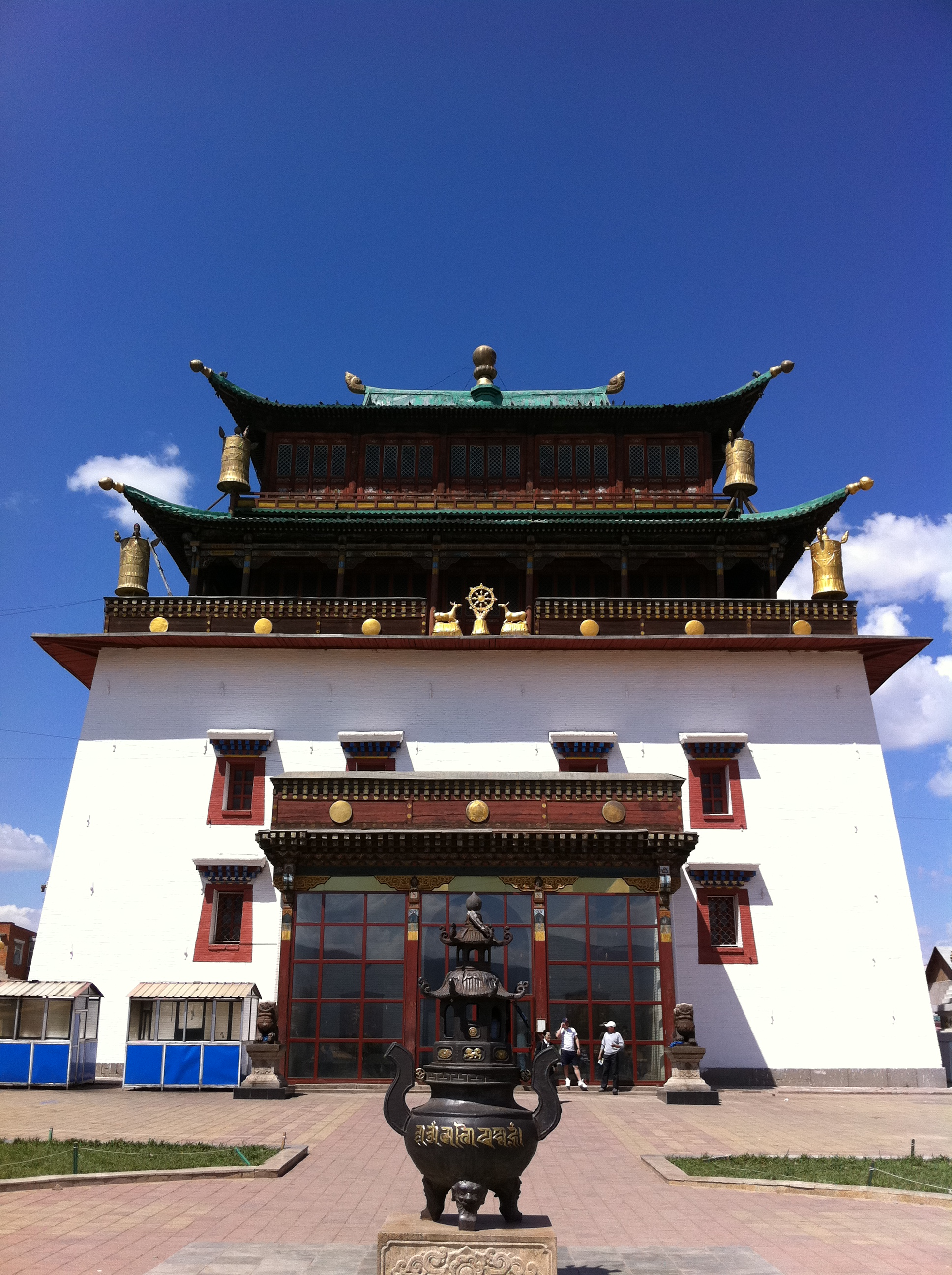 Migjed Janraisig, Gandan Monastery, Ulan Bator